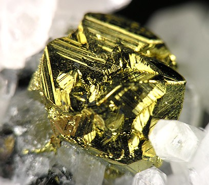 Chalcopyrite, Quartz Locality: Camp Bird Mine, Ouray, Sneffels District (Mount Sneffels District), Ouray County, Colorado, USA (Locality at ) Size: 5.2 x 3.6 x 2.7 cm. The Camp Bird mine near Ouray, Colorado is one of the most classic of all the Colorado ore body localities. It is celebrated for its superb Chalcopyrite specimens, exhibiting some of the finest twins for the species extant. This specimen features a few superb, sharp, splendent, metallic, brassy-gold colored twinned crystals of Chalcopyrite which are associated with sharp, jet-black Sphalerite crystals sitting atop contrasting white, prismatic Quartz crystals. From the 600’ Stope, 2100’ Level. Ex. Richard Kosnar Collection.